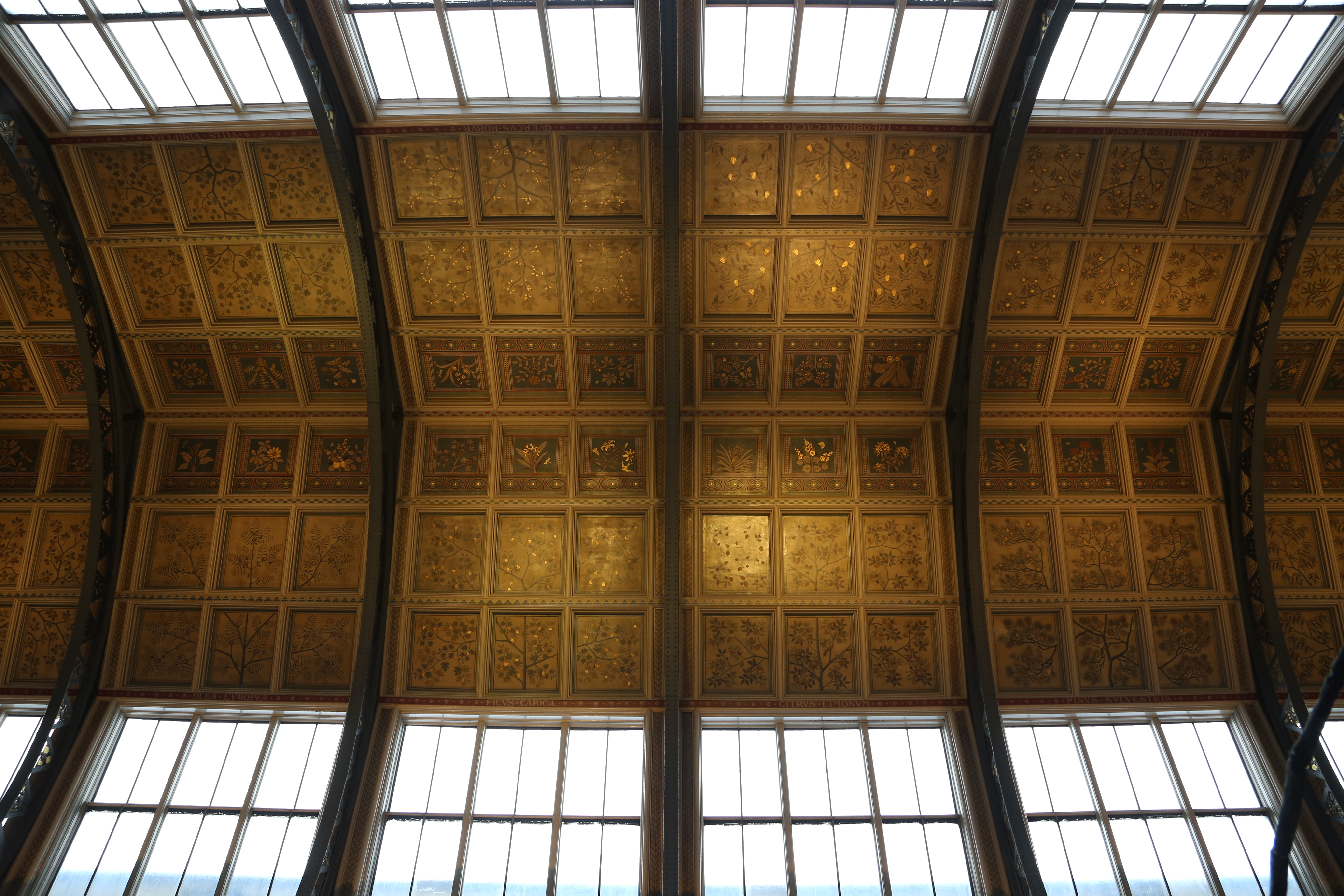 Ceiling of the Central at the Natural History Museum, London